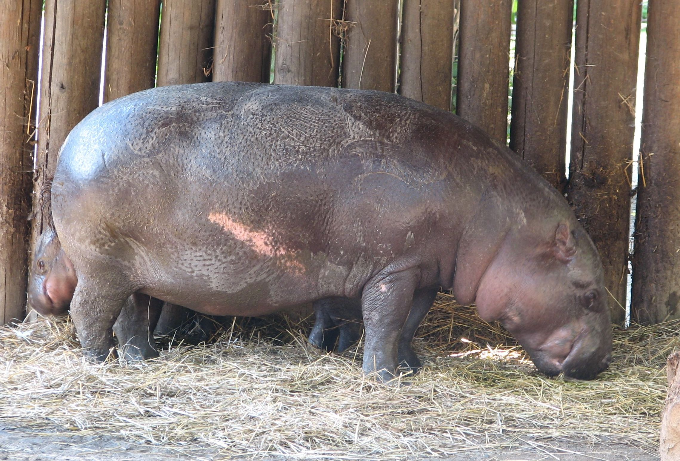 Hexaprotodon liberiensis in ZOO Jihlava, Czech Republic